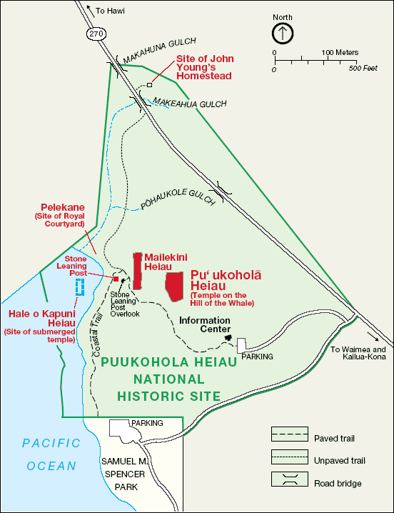 Map of Pu'ukohola Heiau National Historic Site, from their web site. Also the site of British sailor John Young, who helped King Kamehameha. The final battle to unite the island of Hawai'i was fought here in 1791, near Kawaihae.